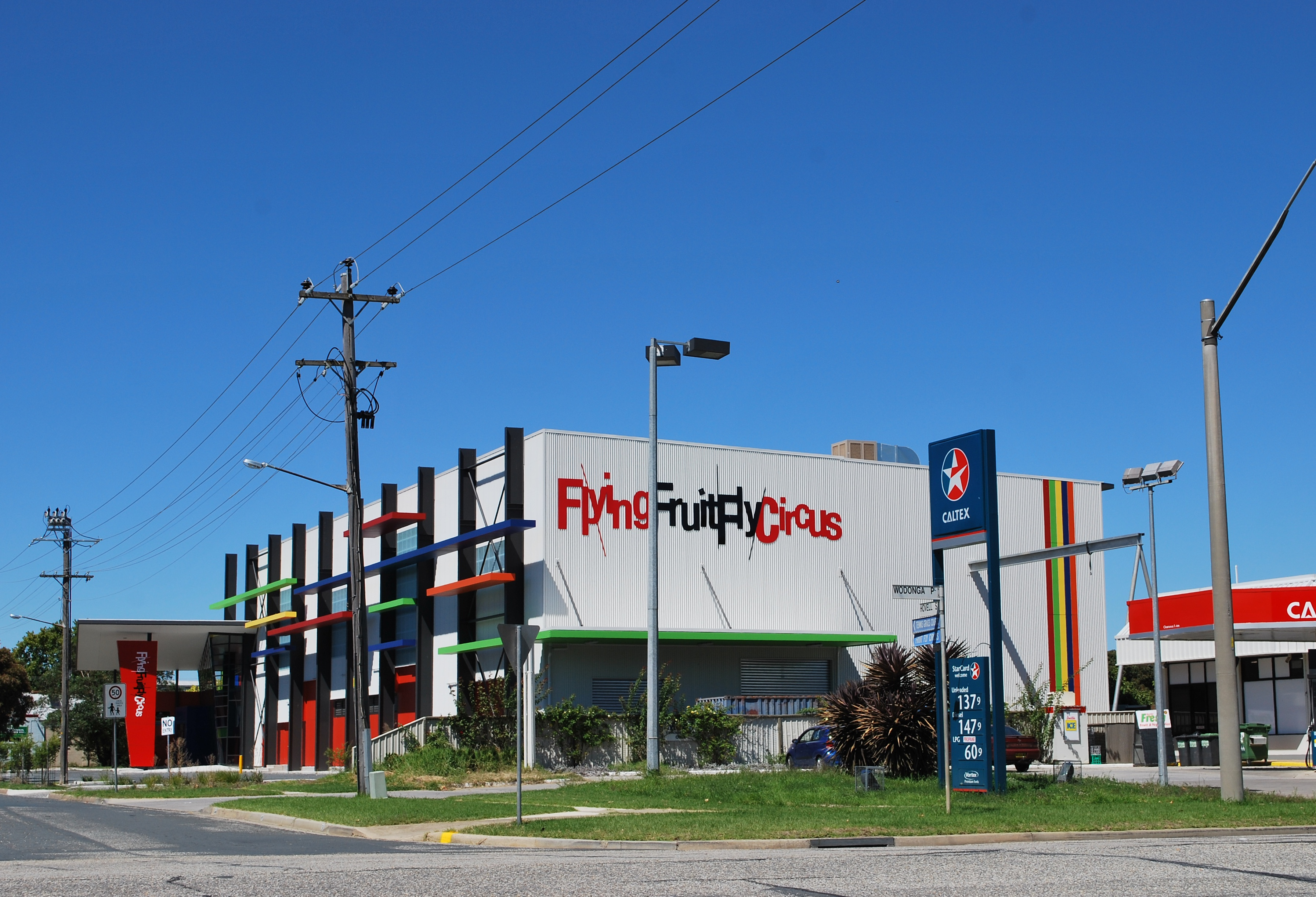 Flying Fruit Fly Circus at Albury, New South Wales